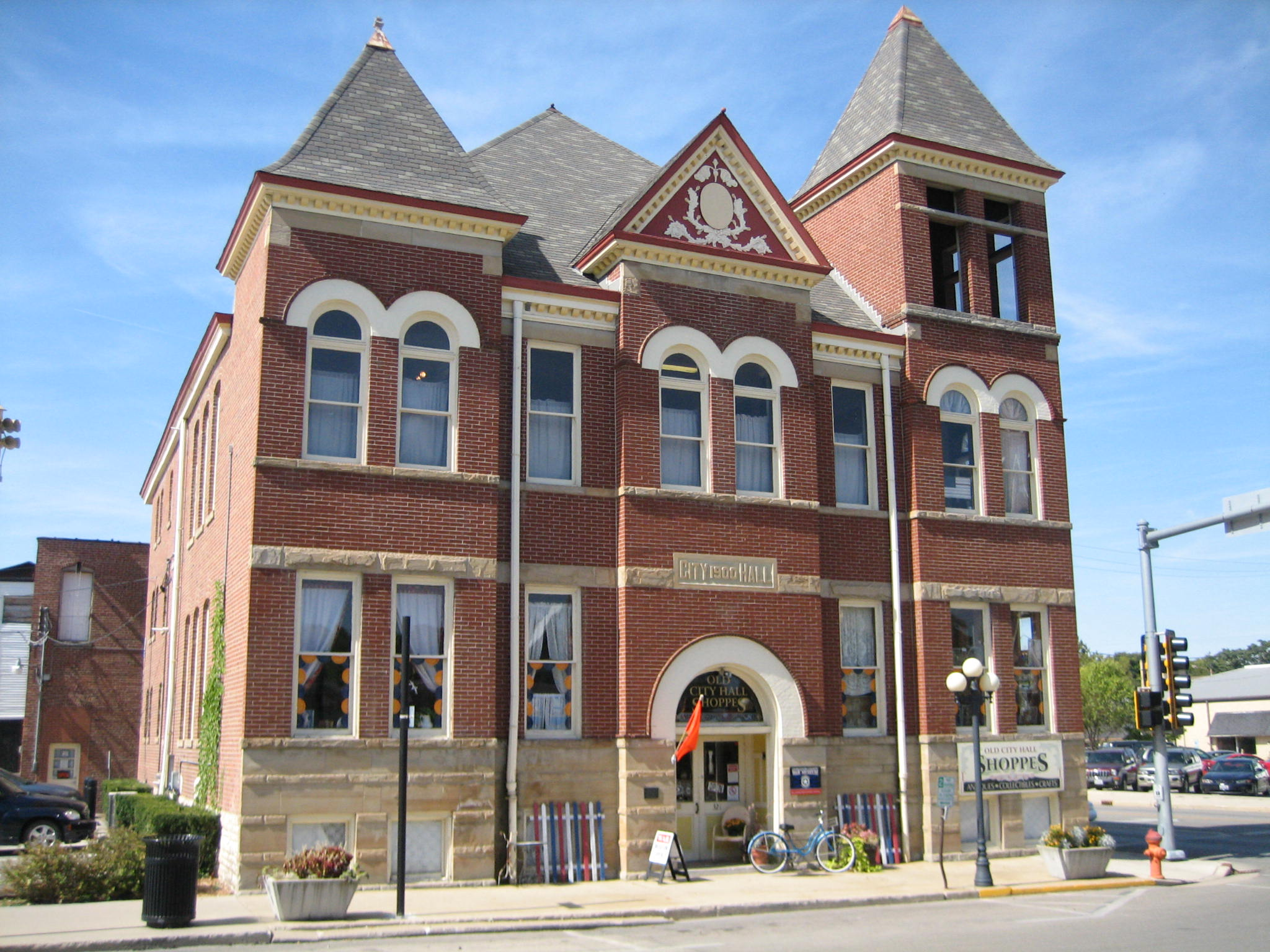 Pontiac City Hall and Fire Station, Pontiac Illinois, USA, along historic U.S. Route 66. U.S. National Register of Historic Places.